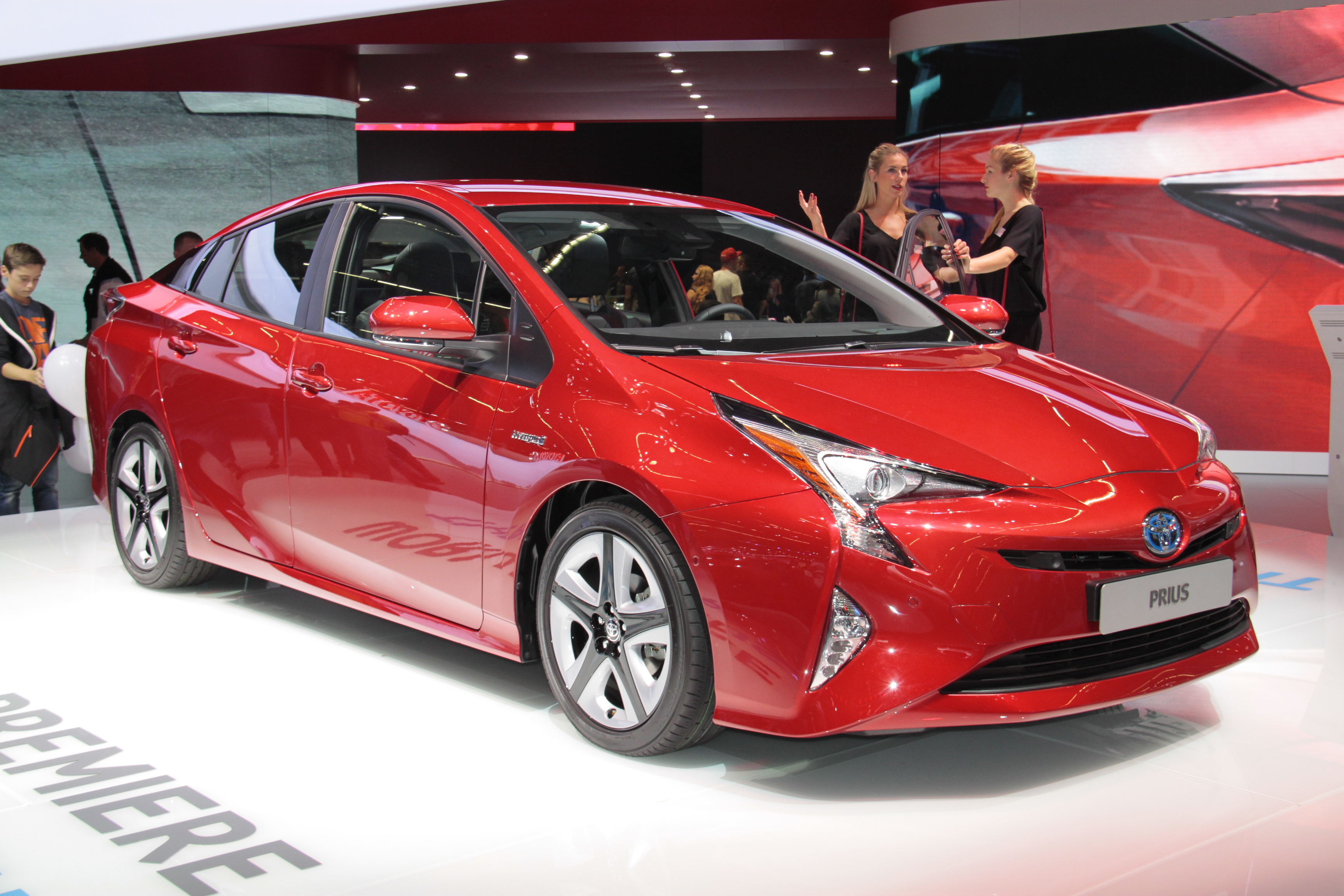 Toyota Prius 4th Gen. at the 2015 IAA in Frankfurt